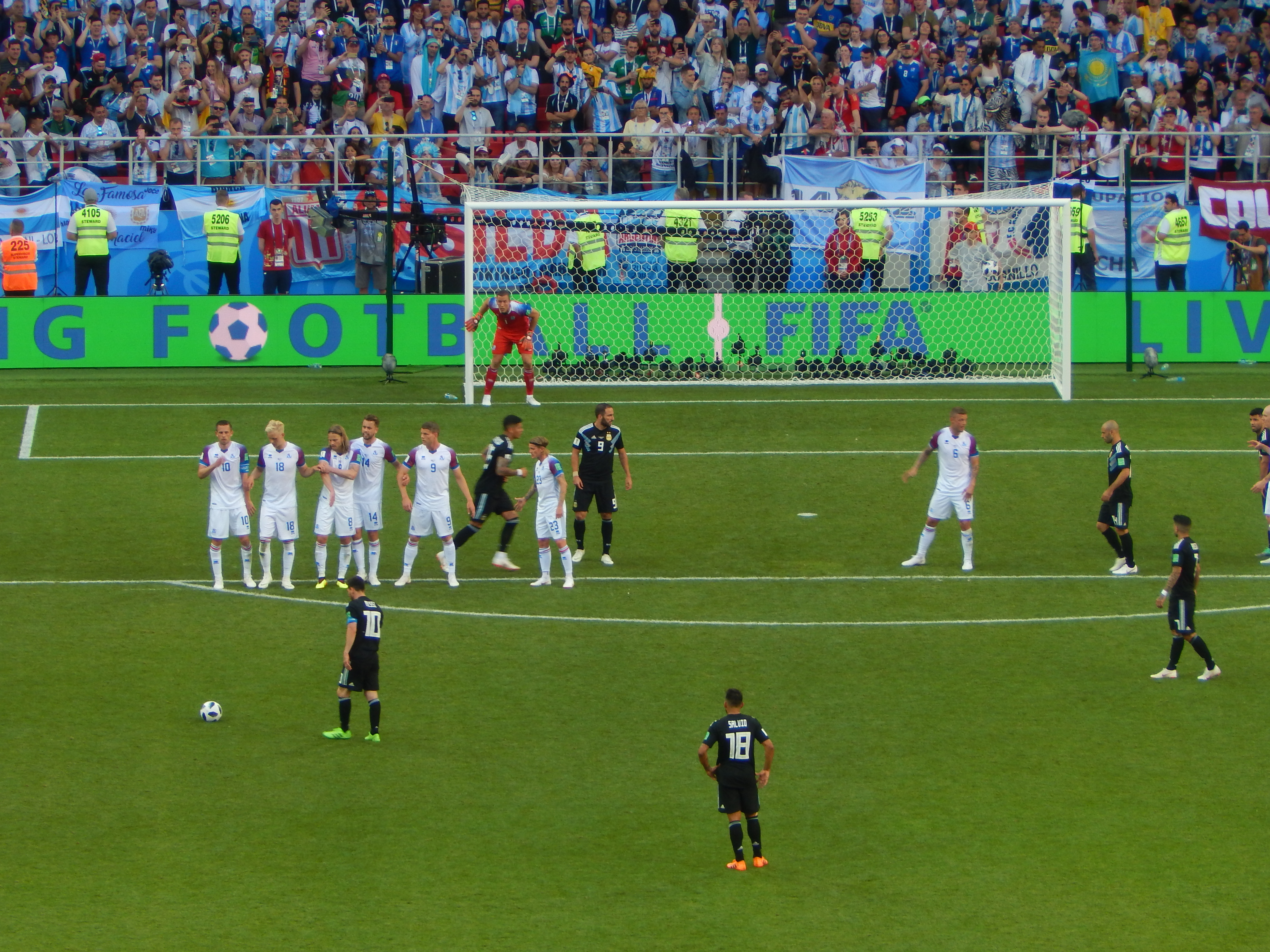 FIFA World Cup 2018, Group D, Argentina vs. Iceland